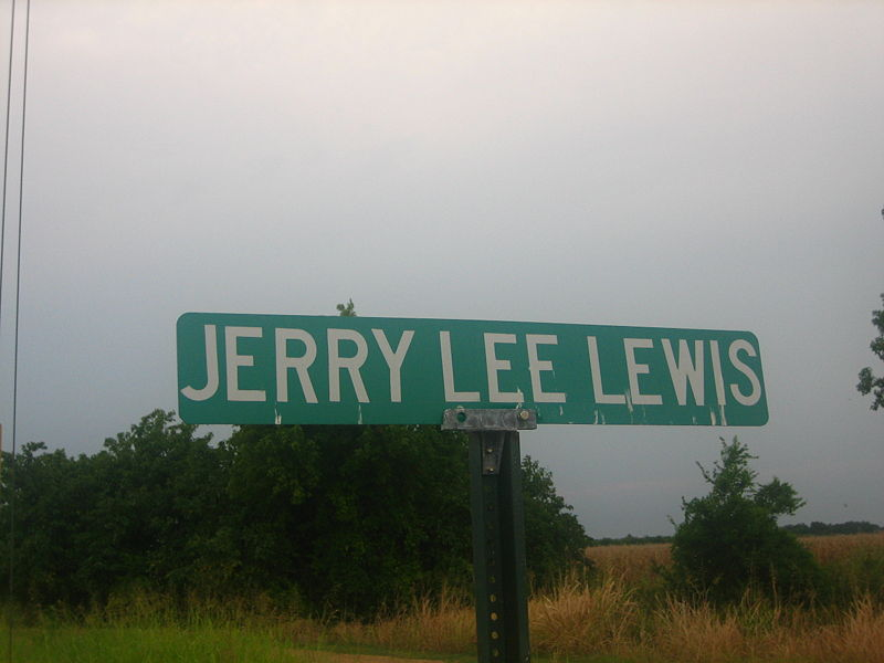 The "Jerry Lee Lewis Drive", named after Lewis in Ferryday, LA; Lewis' hometown